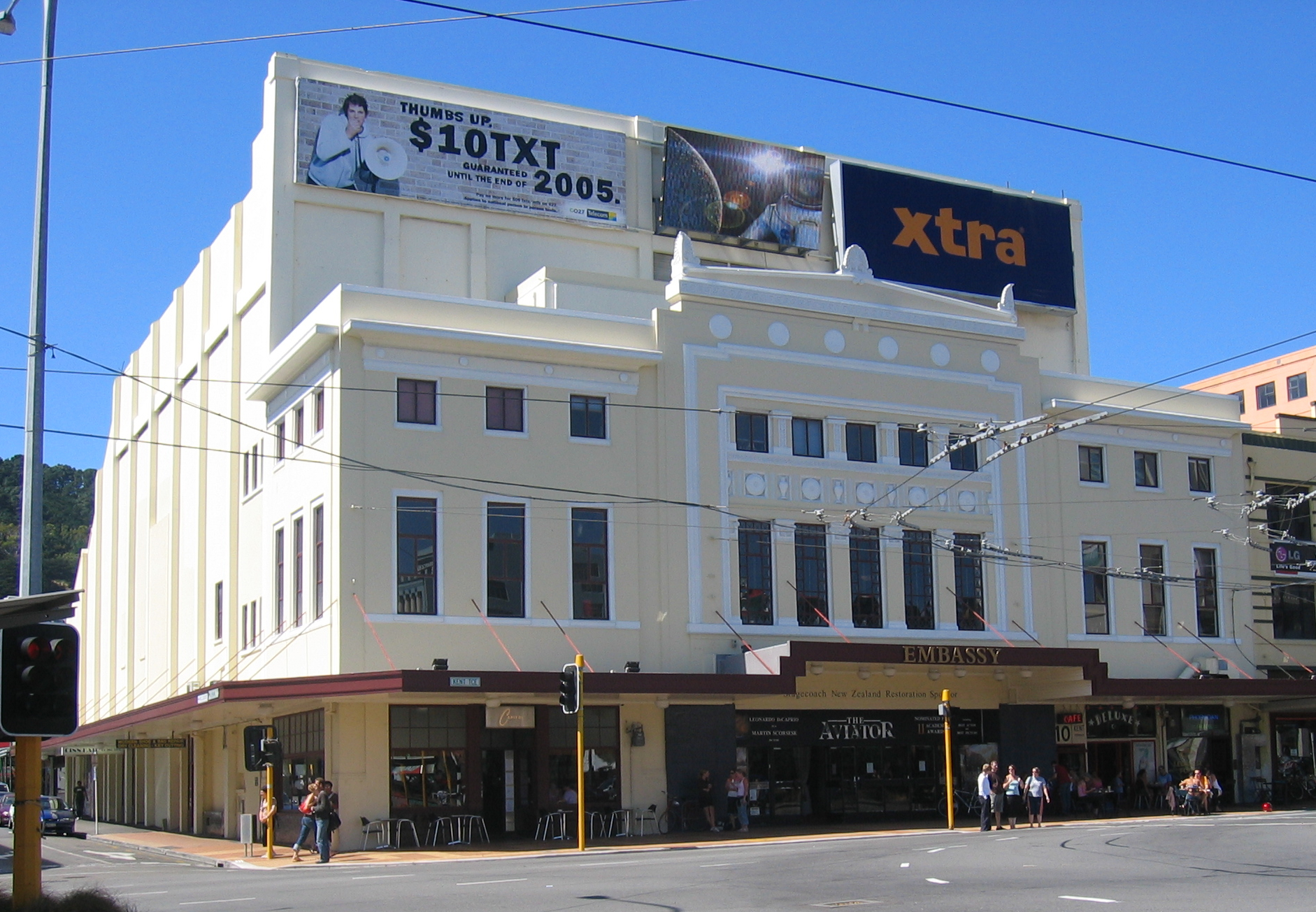 A daytime shot of the Embassy Theatre in Wellington, New Zealand, looking east on Courtenay Place